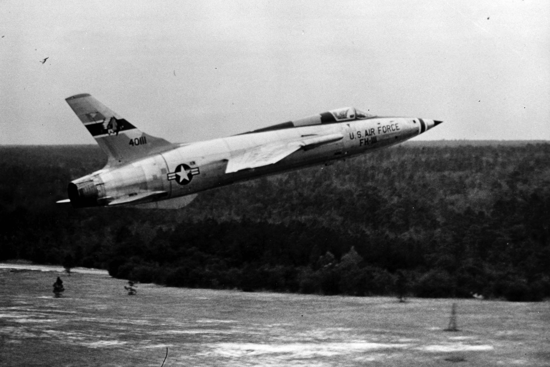 Republic F-105B-6-RE (SN 54-0111) takes off.